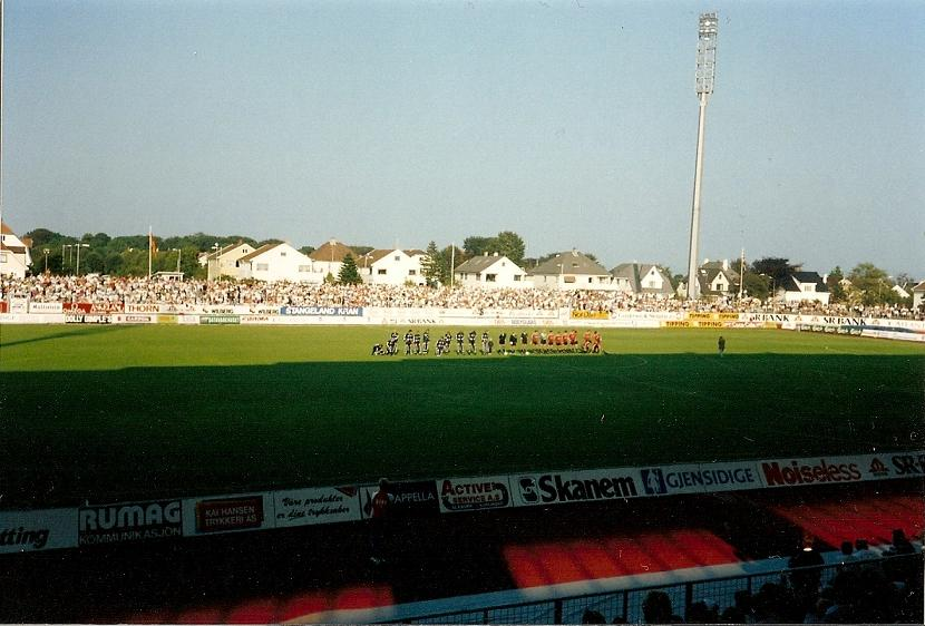 Stavanger Stadion, 30th of july. Viking vs Man. United (0-1).